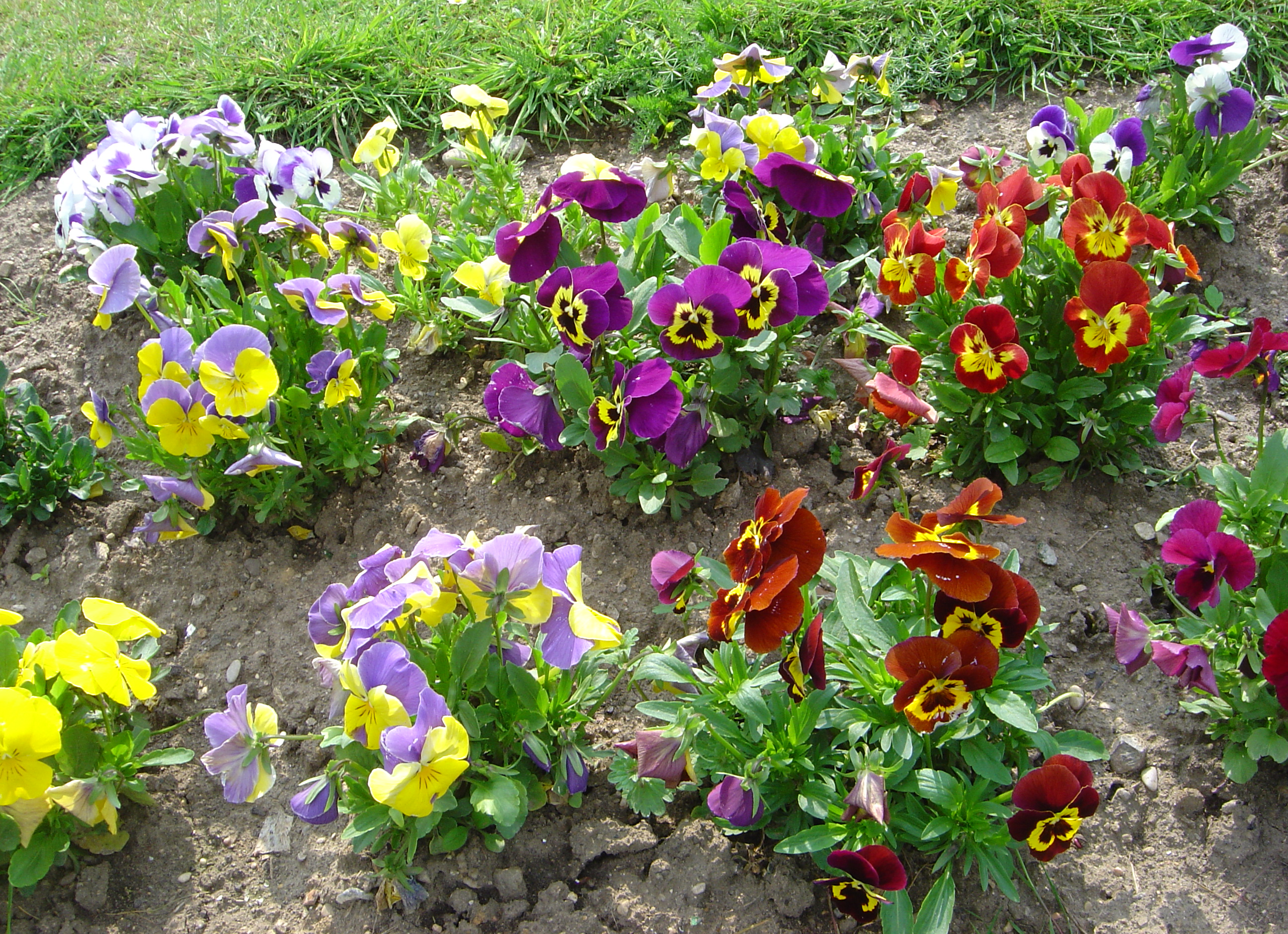 Viola x wittrockiana En: Photograph taken at the Jardin des Plantes in Paris, France Fr: Photographie prise au Jardin des Plantes à Paris, France